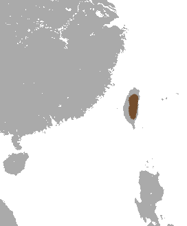 Lesser Taiwanese Shrew (Chodsigoa sodalis) range